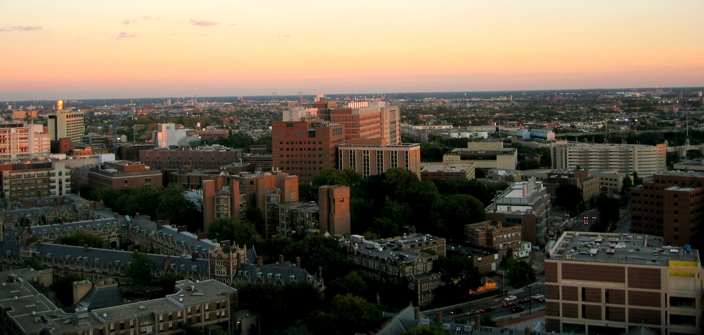 View from photographer's room